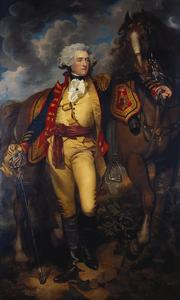 Portrait of John Bowes, 10th Earl of Strathmore and Kinghorne (1769-1820)